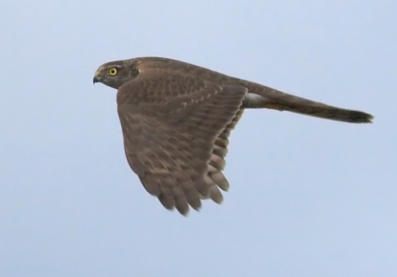 Accipiter nisus in flight. Photo by Thermos. A picture of a sparrowhawk. This is probaply the same bird than in the pictures AccipiterNisusFlightA.jpg and AccipiterNisusFlightB.jpg, but photographed on different day. And this time, unfortunately, very far away and in very bad light. However, at least one can see the bird in flight photographed from about the same level.